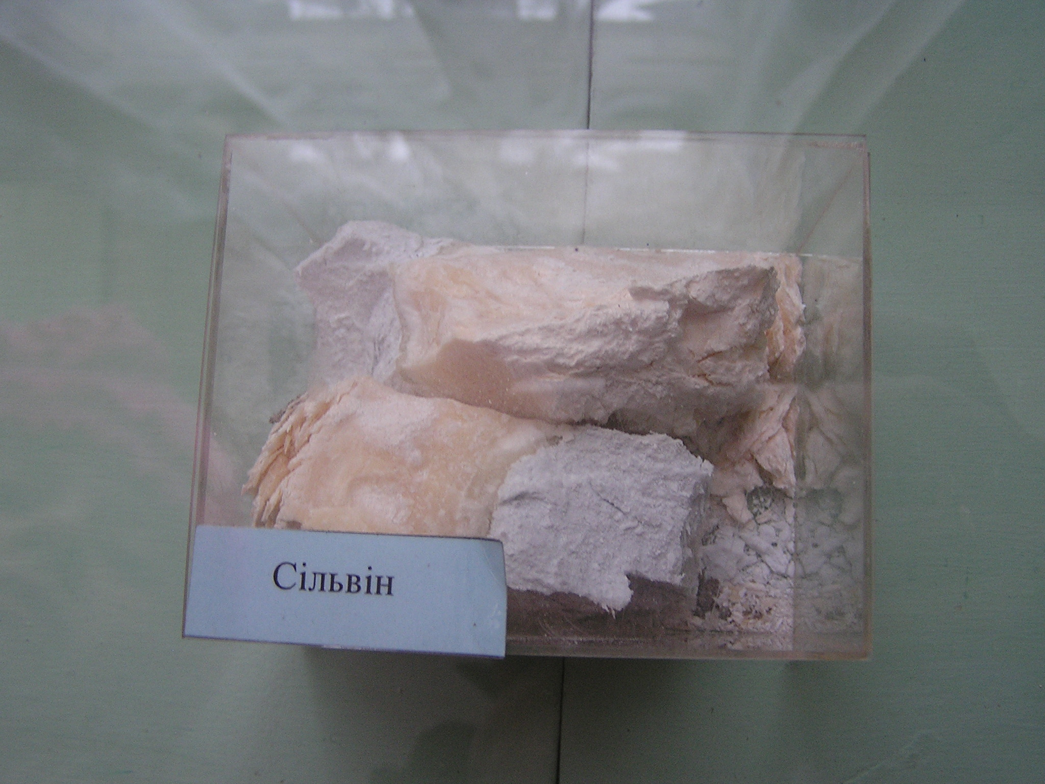 History museum of Truskavets History Museum of Truskavets Native nameМузей истории г. ТрускавецLocationTruskavetsCoordinates49° 16′ 39.5″ N, 23° 30′ 23.96″ E Established29 December 1982 Authority control : Q12130489 institution QS:P195,Q12130489